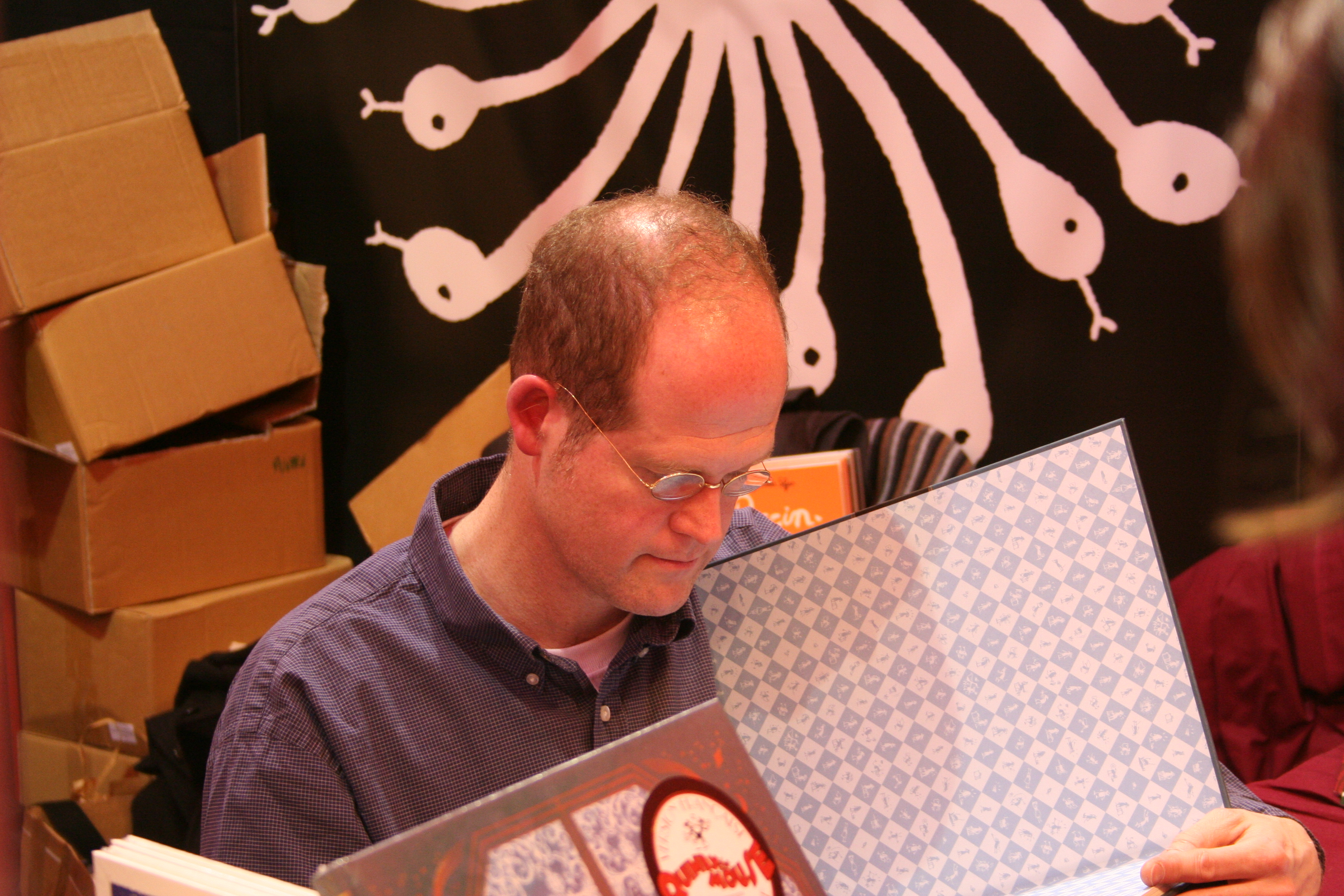 Chris Ware at Angoulême, France during the festival. The 31st January of 2009.